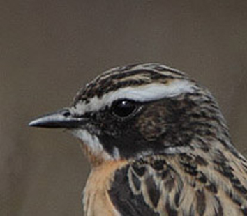 A male Whinchat head in breeding plumage.